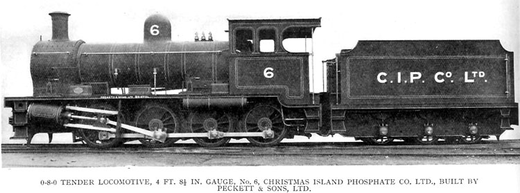 0-8-0 tender locomotive for the Christmas Island Phosphate Co.'s Railway by Peckett & Sons Ltd. of Bristol, No. 1824 of March 1931